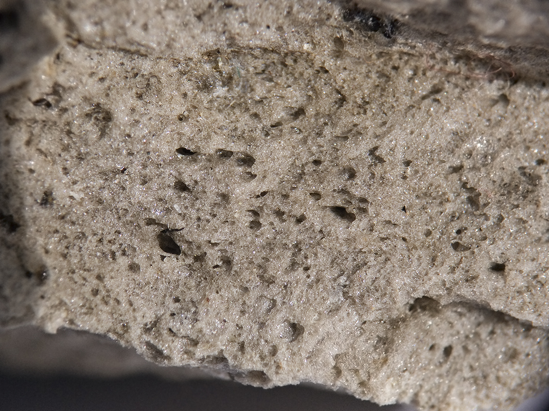 Pumice is a textural term for a volcanic rock that is a solidified frothy lava typically created when super-heated